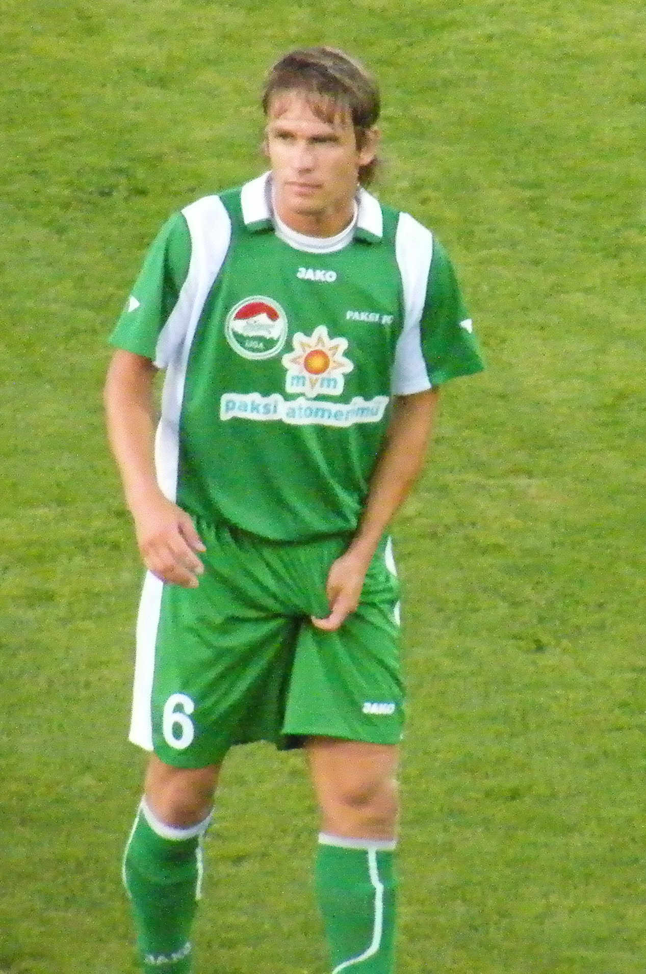 János Zováth Hungarian football player